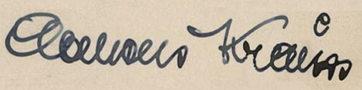 Clemens Krauss (1893–1954), autograph of the conductor.